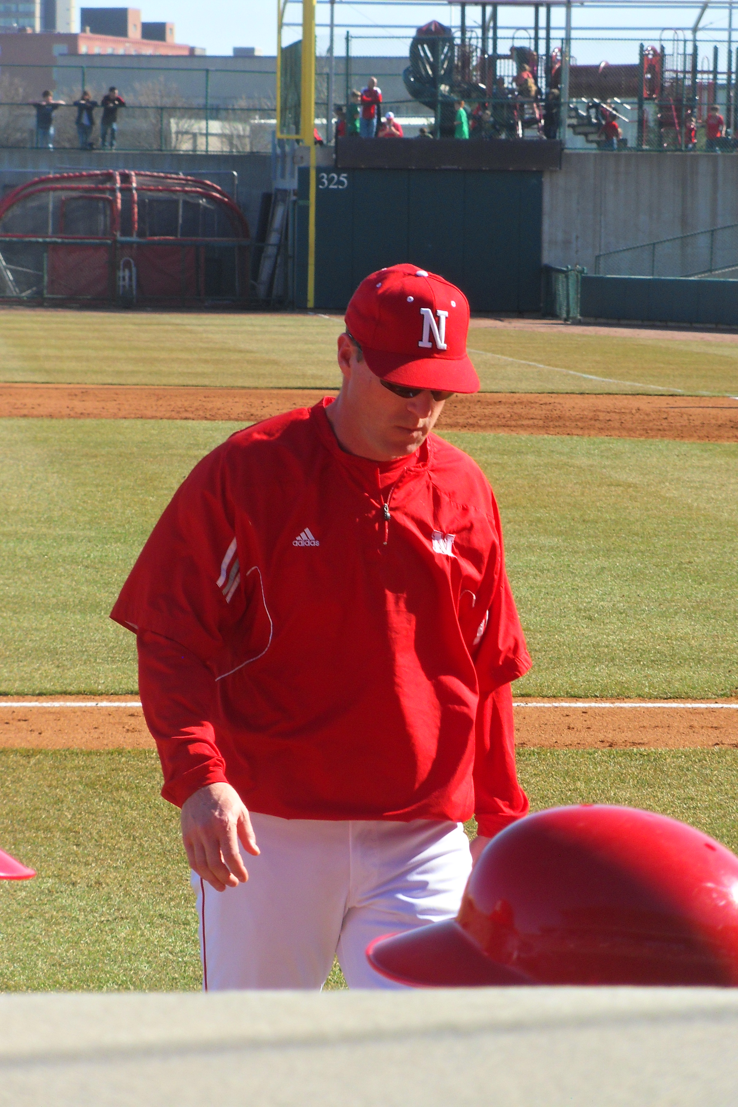 Darin Erstad walking back the Cornhuskers dugout